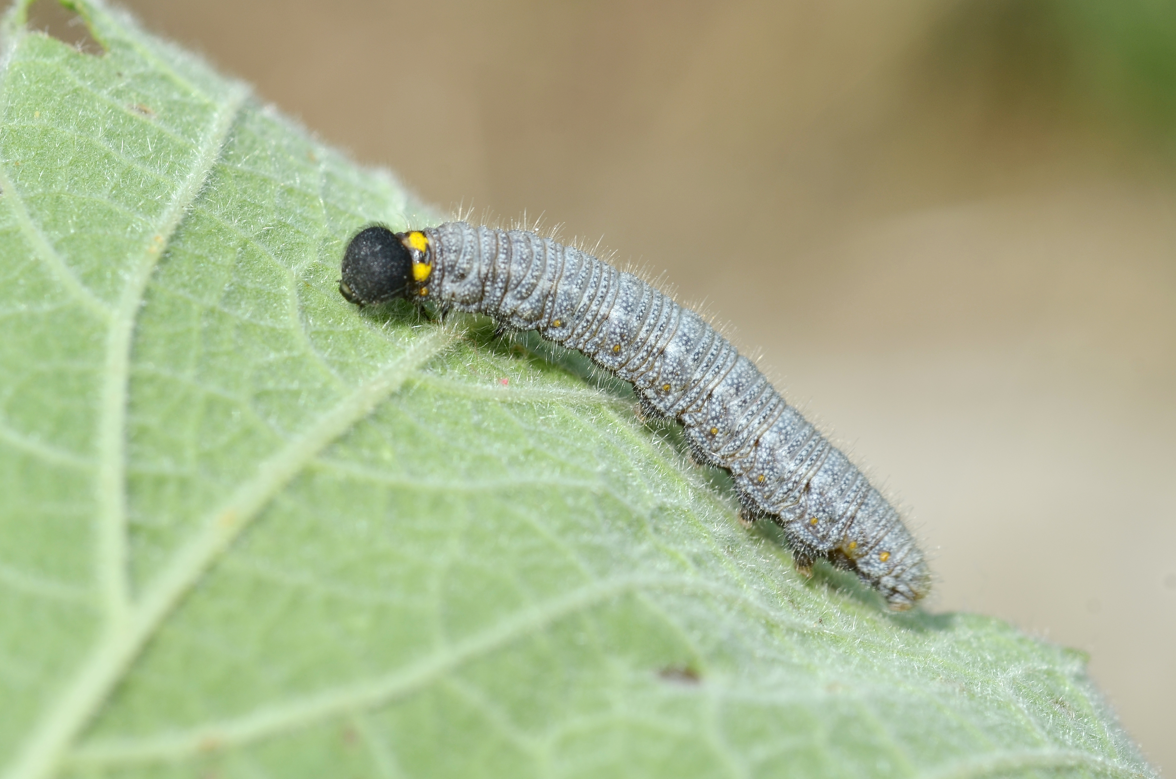 Carcharodus alceae caterpillar on Alcea rosea